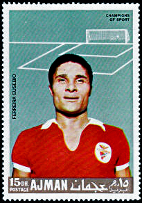 A 1968 Ajman stamp commemorating S.L. Benfica player Eusébio.